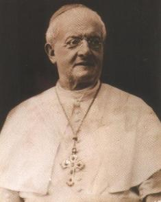 Pio Alberto Del Corona